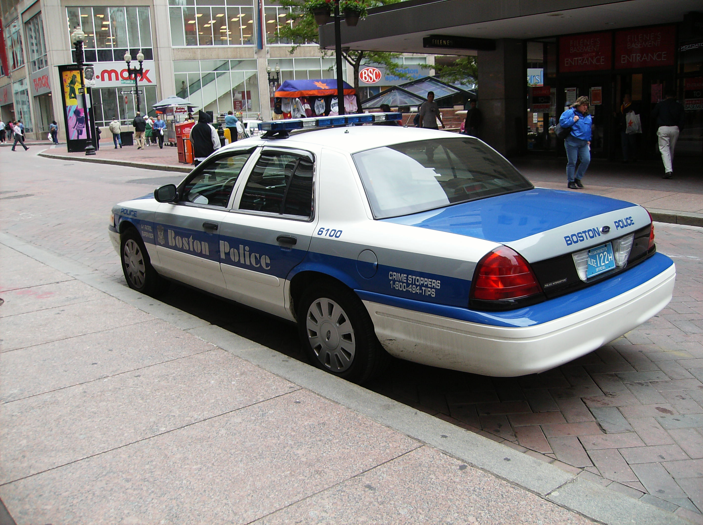 Street scene in Downtown Crossing, Boston with the TJ Maxx visible, on Washington Street of a Boston Police Cruiser north of Summer Street in 2007